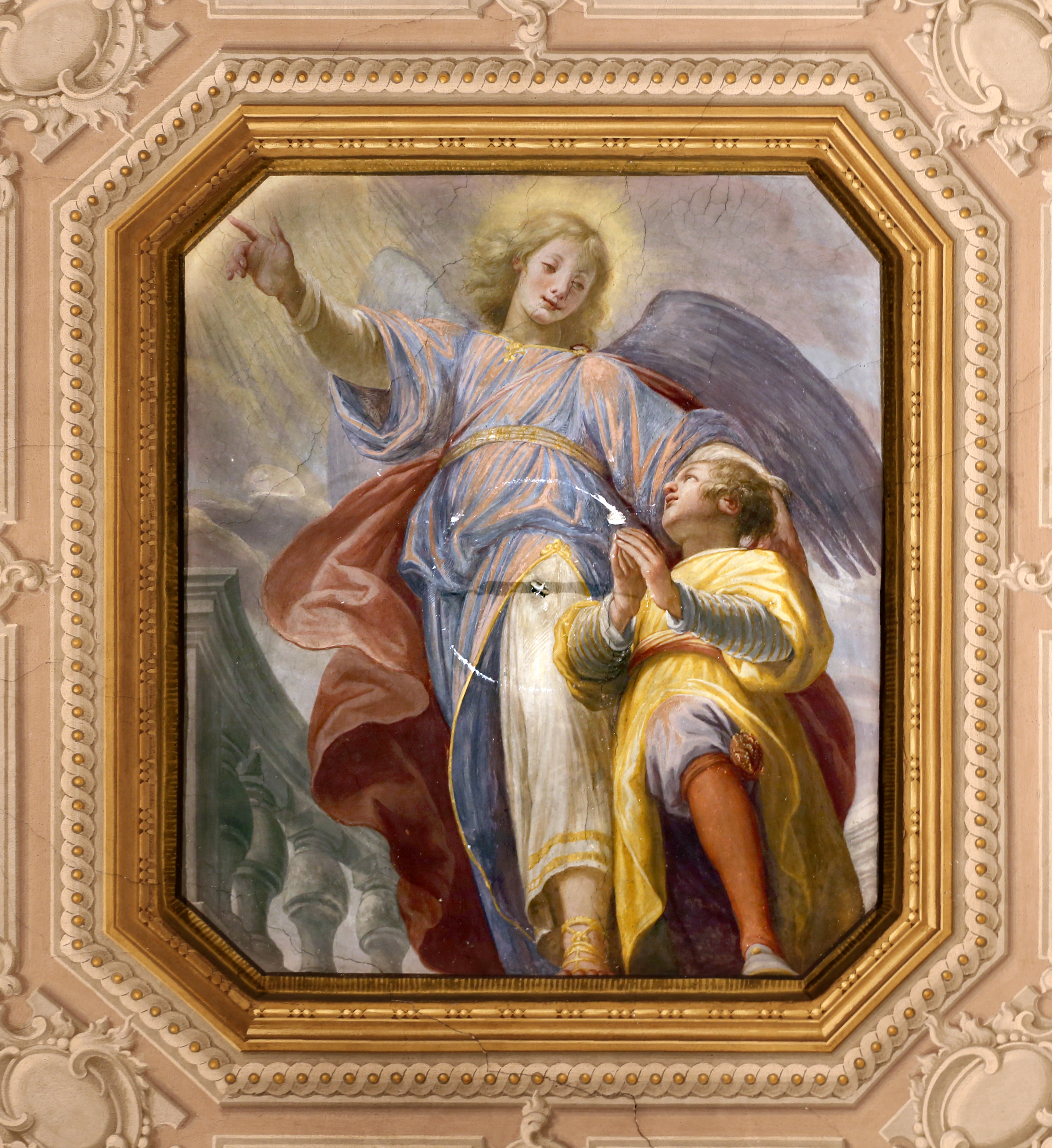 Palazzo di San Clemente - First floor